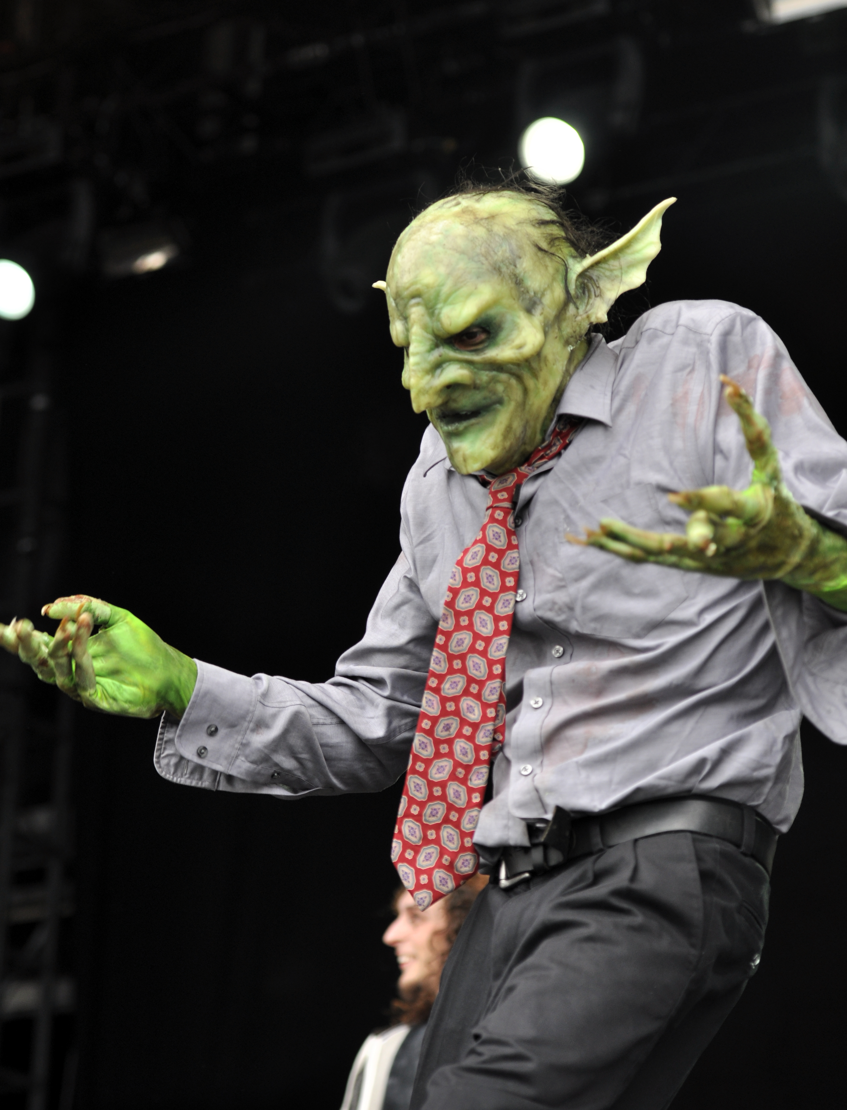 Nekrogoblikon at Rock am Ring 2013